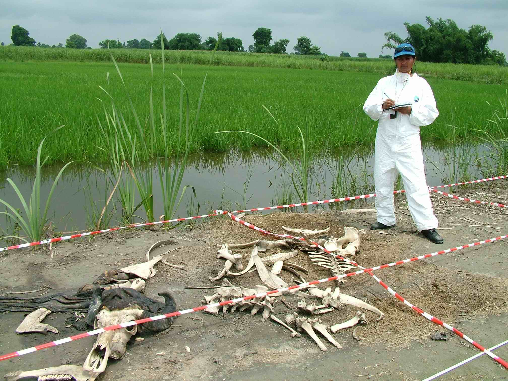 Roma Khan doing preliminary work on decomposition of cattle. She finally hopes to open up a Human Anthropological Facility (popularly known as 'body farm'), where similar decomposition on humans would be studied.